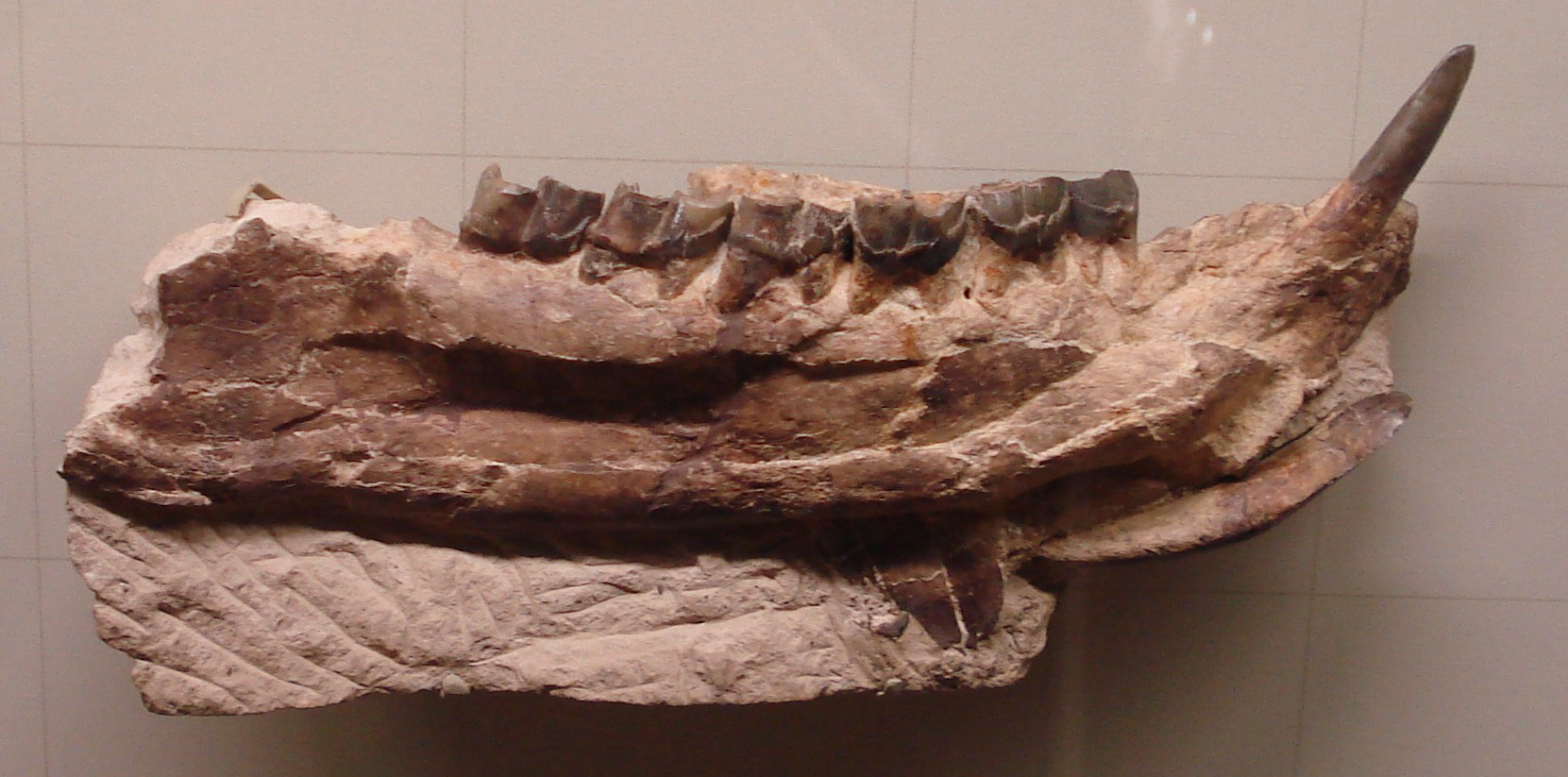 fossil of protaceratherium